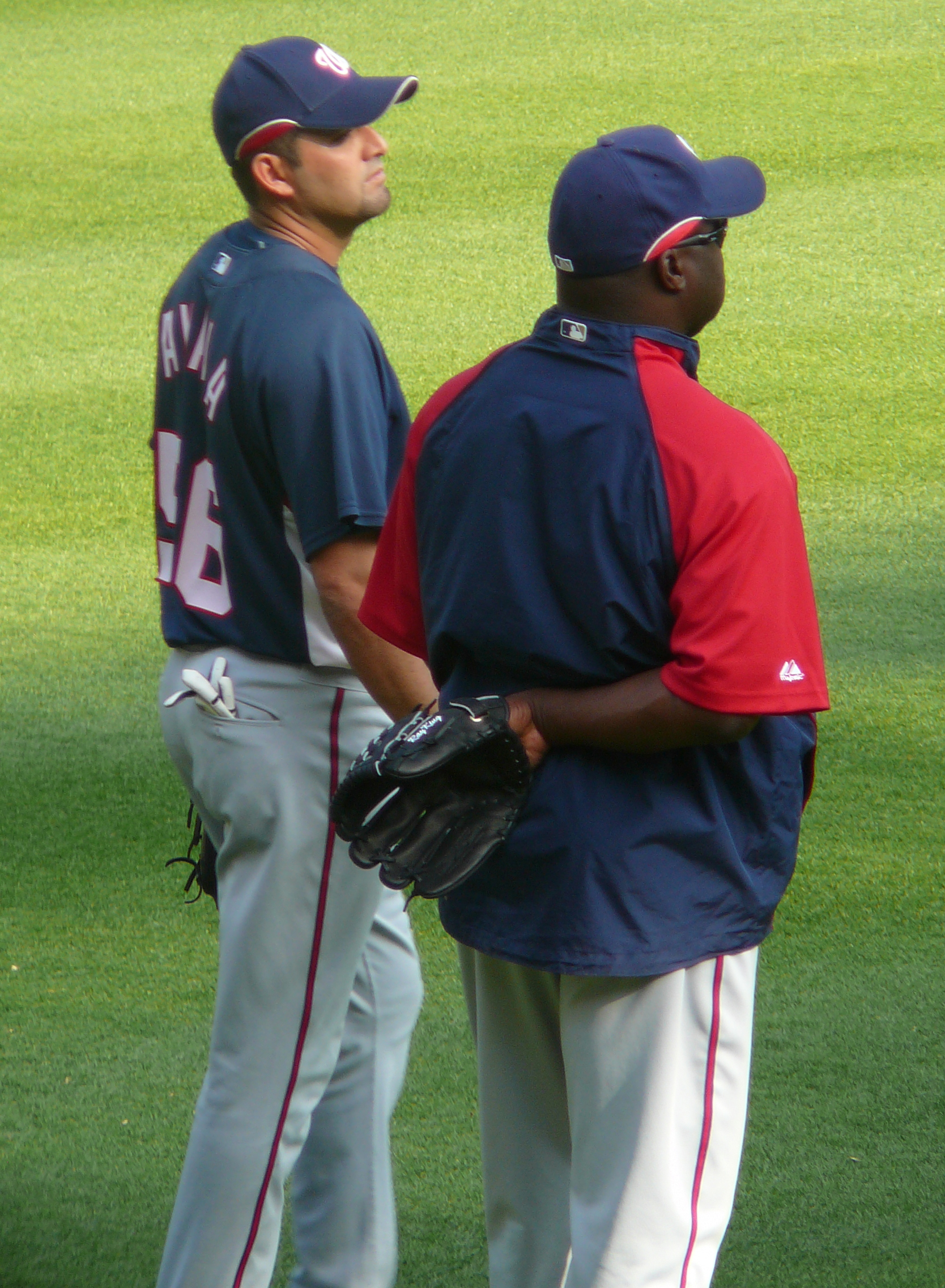 User:Chrisjnelson agreed to license this image of en:.jpg under a free attribution license. Any use of this image must be attributed; this means that Photo by :en:User:Chrisjnelson|Chris Nelson should be in the picture caption. 01:37, 24 April 2008 . . Chrisjnelson . . 1,668×2,273 (2.59 MB)